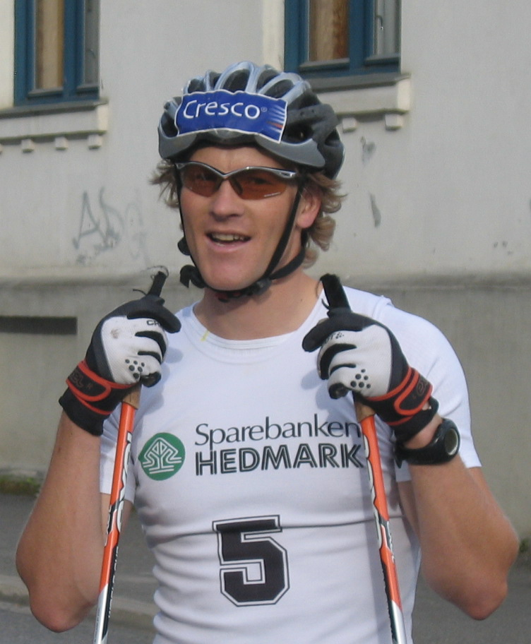 The Norwegian cross-country skiers John Anders Gaustad & Jens Arne Svartedal under Kirkebakken Grand Prix 2007 in Hamar, Norway.